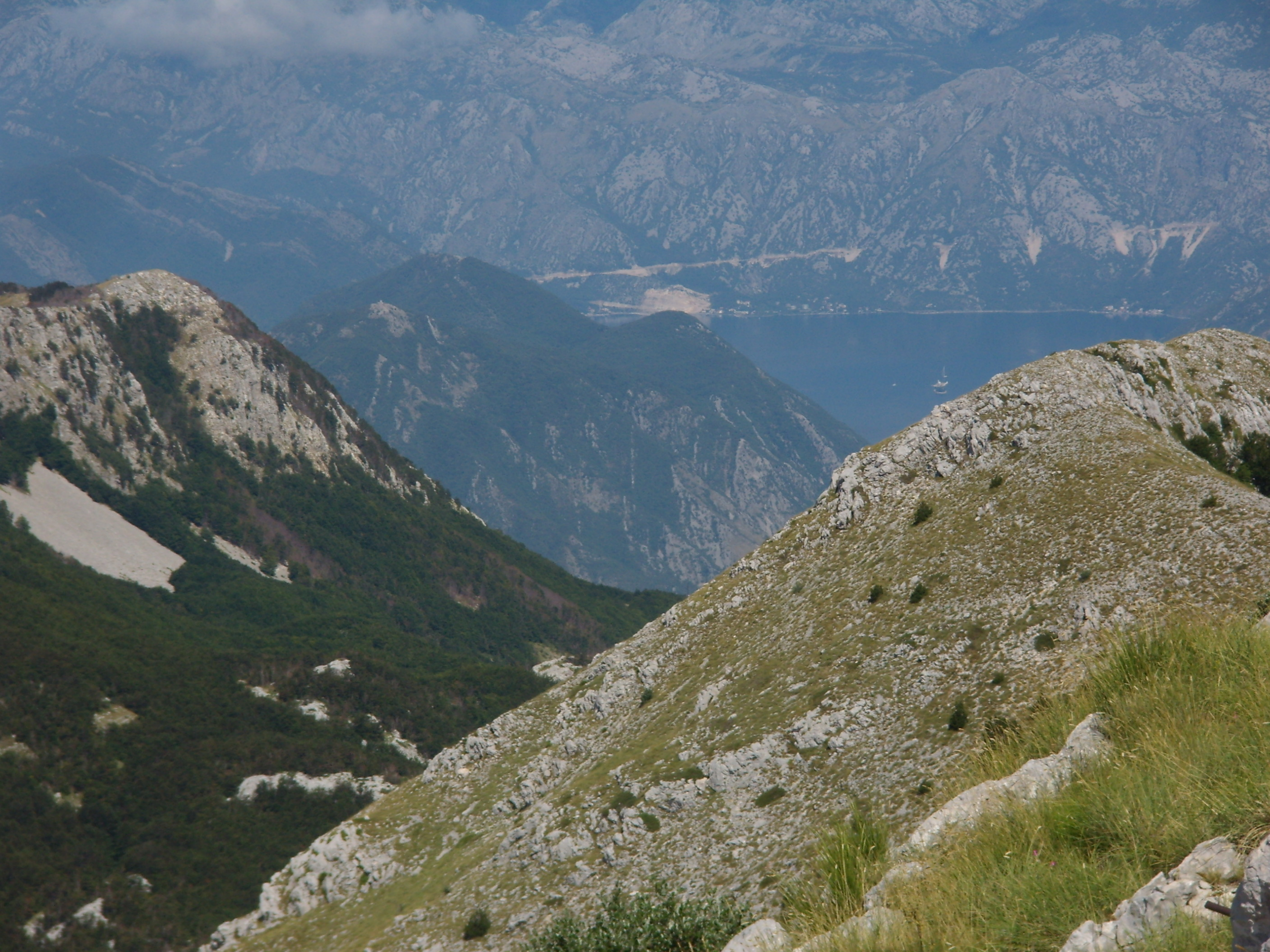 Поглед на рисански залив са Ловћена